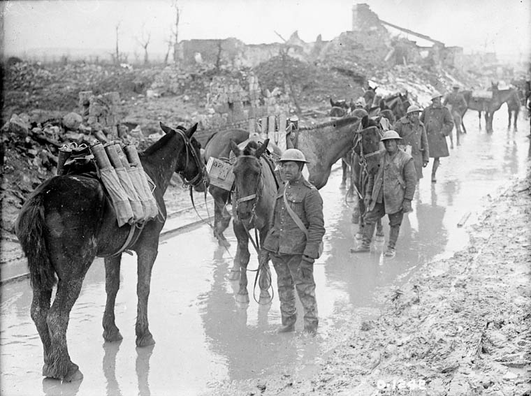 Pack horses transporting ammunition to the 20th Battery, Canadian Field Artillery in Neuville St. Vaast, France